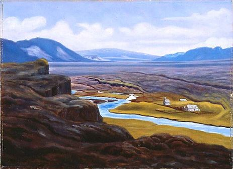 Frá Þingvöllum II (From Þingvellir II) by Þórarinn B. Þorláksson (1867-1924). Made in 1905. The name is from the source of the image, I don't know if it is standard or original, especially noting that :Image:Fra Thingvollum.jpg is made later. Source and copyright Obtained from listasafn.akureyri.is, the website of the Akureyri Art Museum. Link: Published (in black and white) in "Björn Th. Björnsson (1964). Íslenzk myndlist. Reykjavík, Helgafell." vol. I, page 88. This may or may not be the first publication. Note that even photographs which are not artworks have a copyright protection of 50 years from creation in Iceland. Thus it is not clear that this image is in the public domain in Iceland.